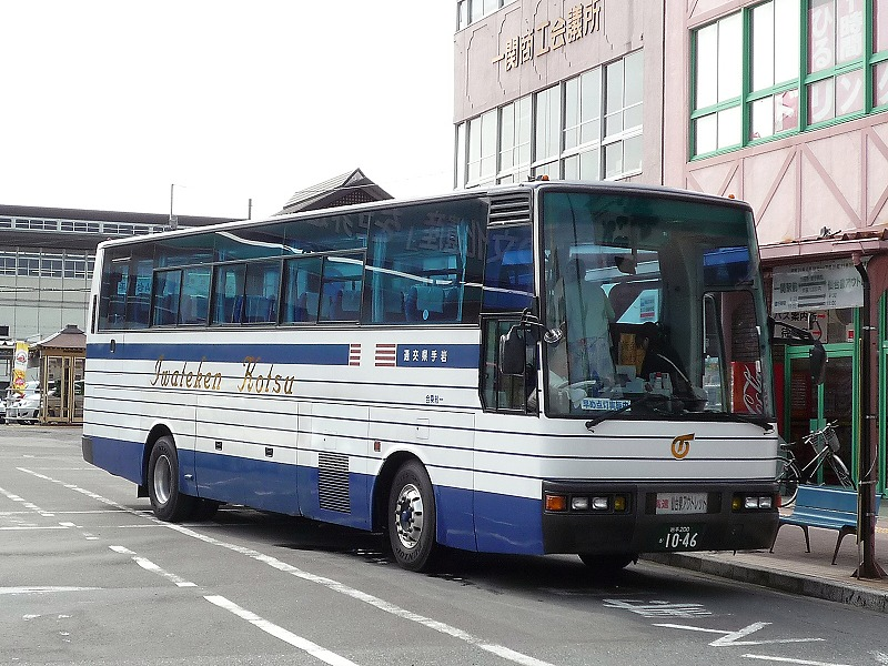 Iwateken Kotsu Highway bus "Ichinoseki - Sendai Izumi Premium Outlet"